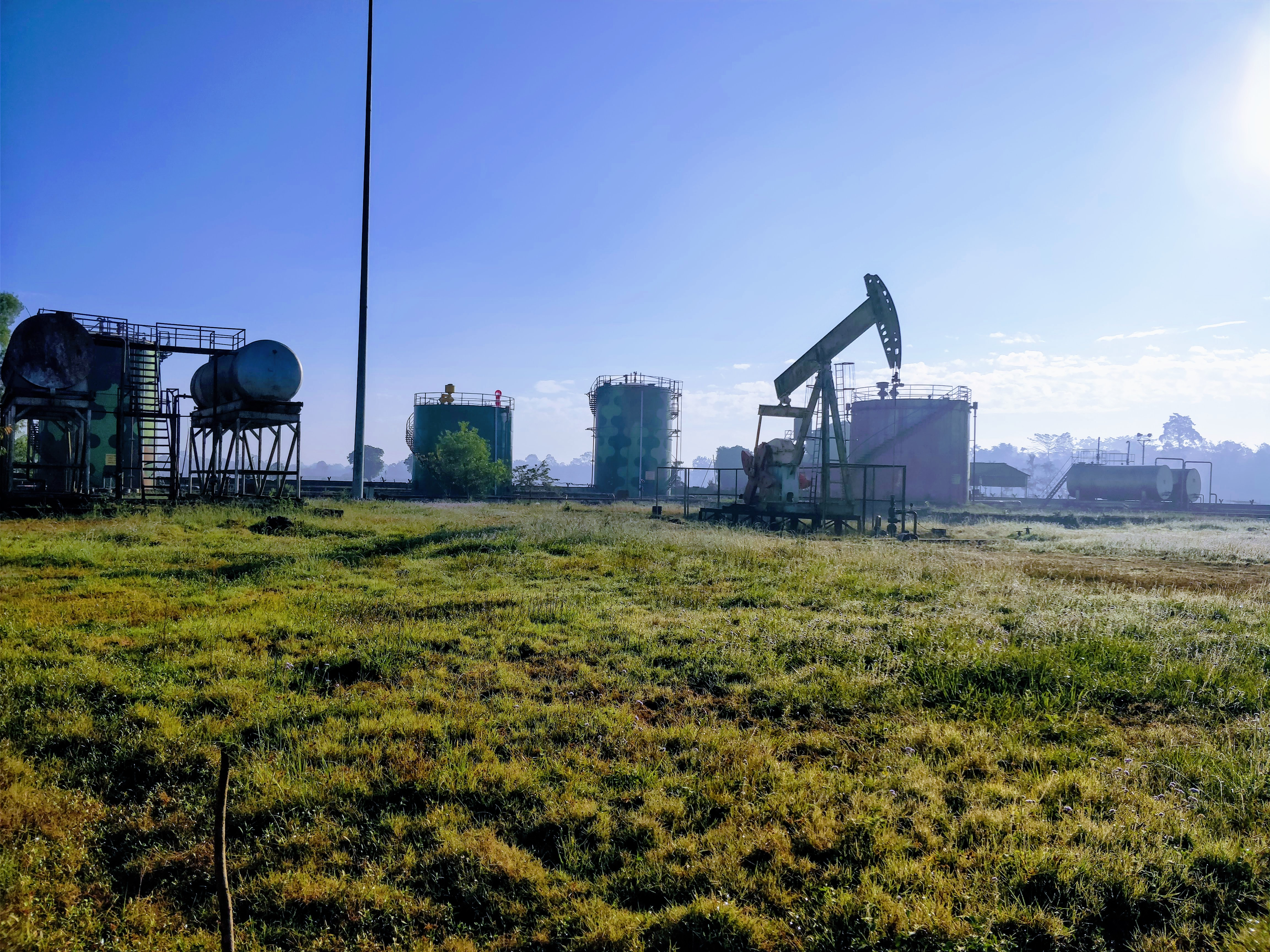 Pumpjack at one of the oil fields of ONGC in Sivasagar District, Assam.